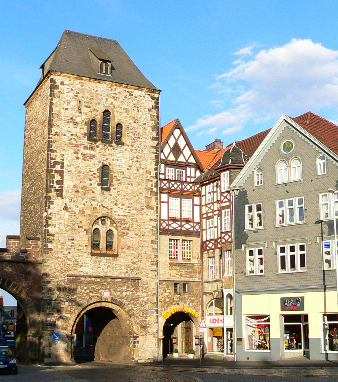 The St.Nikolai-Gate.